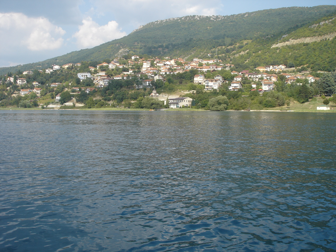 Dolno Konjsko near Ohrid, Macedonia